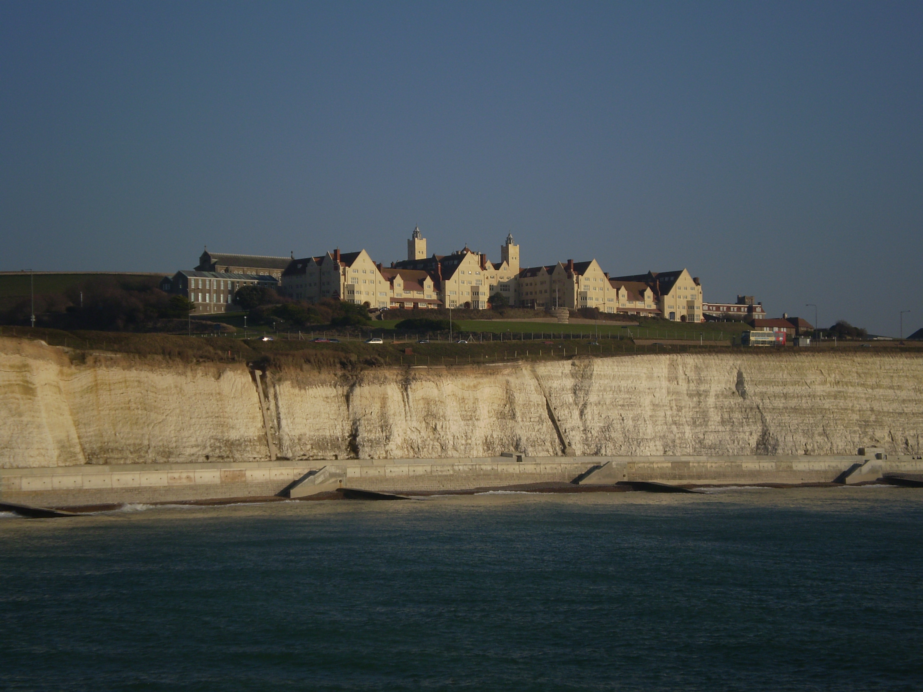 One of the most famous girls schools in Brighton.